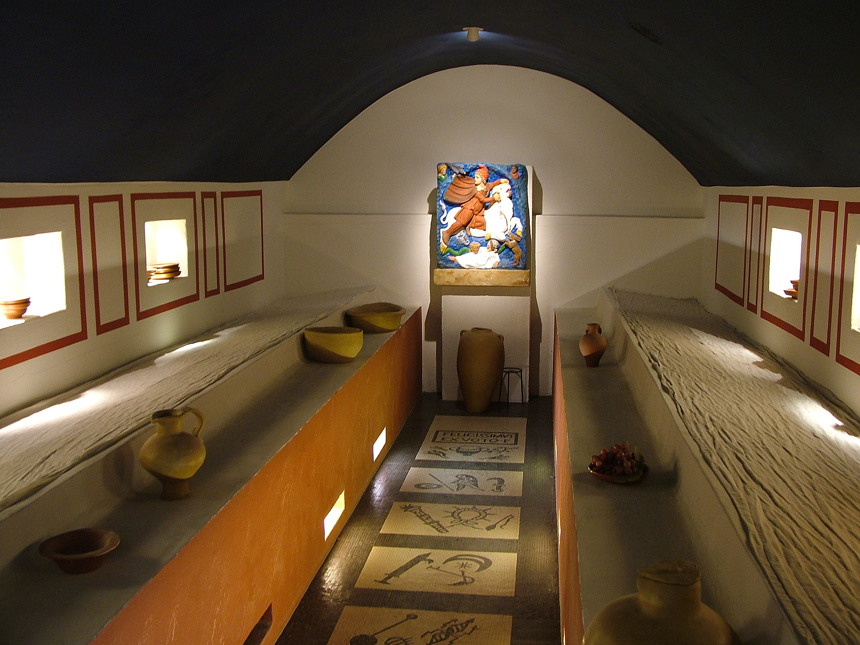 Museumpark Orientalis, former Bijbels Openluchtmuseum in Groesbeek, The Netherlands. Here a replica of a fictitious Mithras sanctuary.